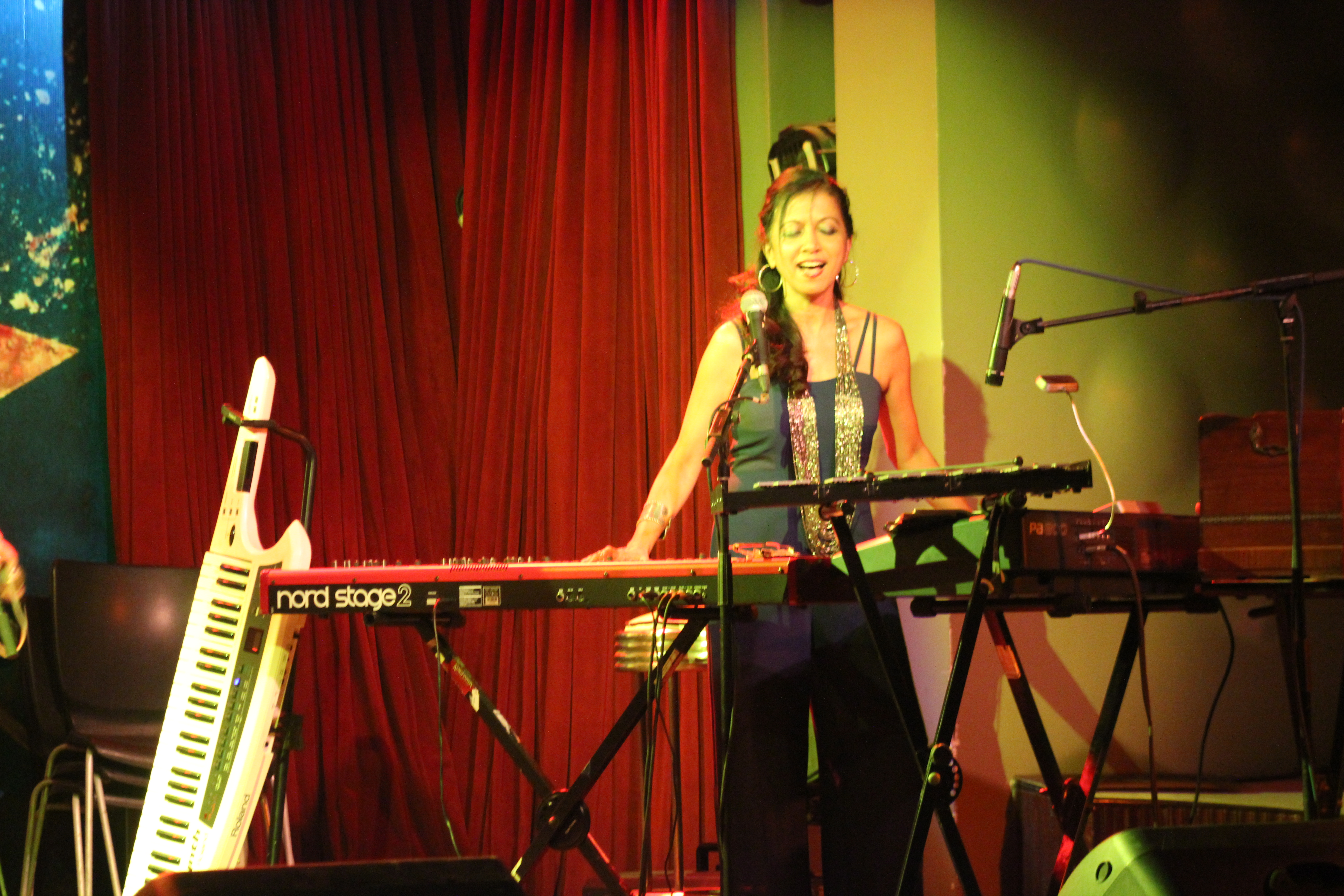 To be used for Merlin DSouza